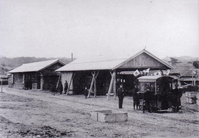 Day when "Railway that connects Chonan with Mobara" opened.